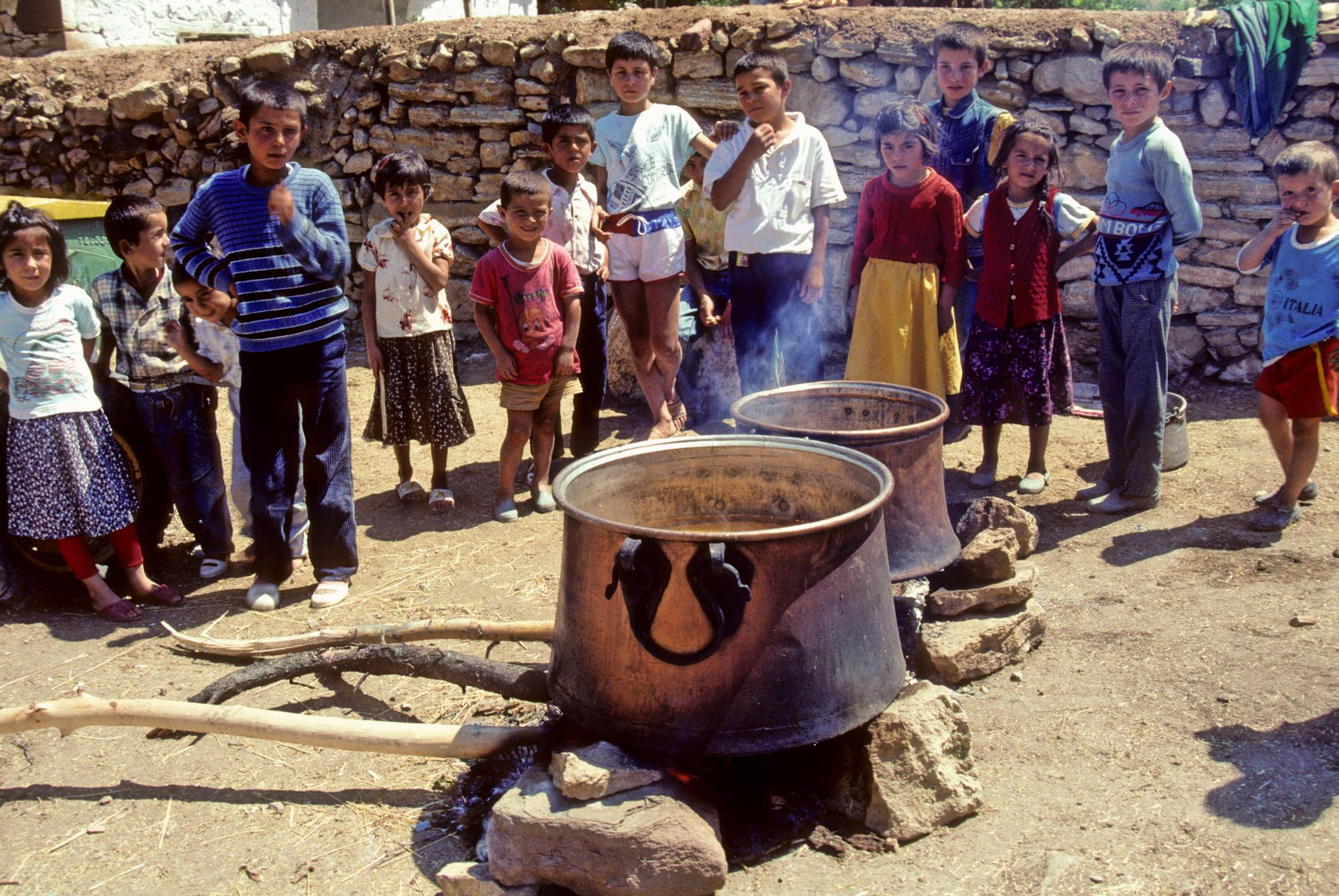 Bulgur making with wheat (Triticum durum/aestivum) in a village in central Turkey.